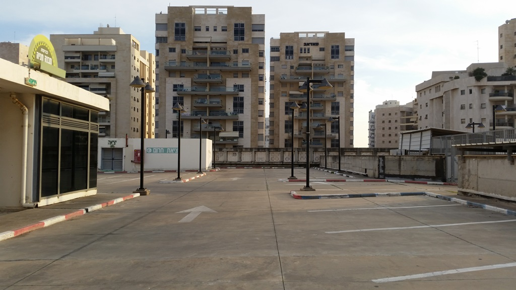 View of the inactive roof level of Holon Mall